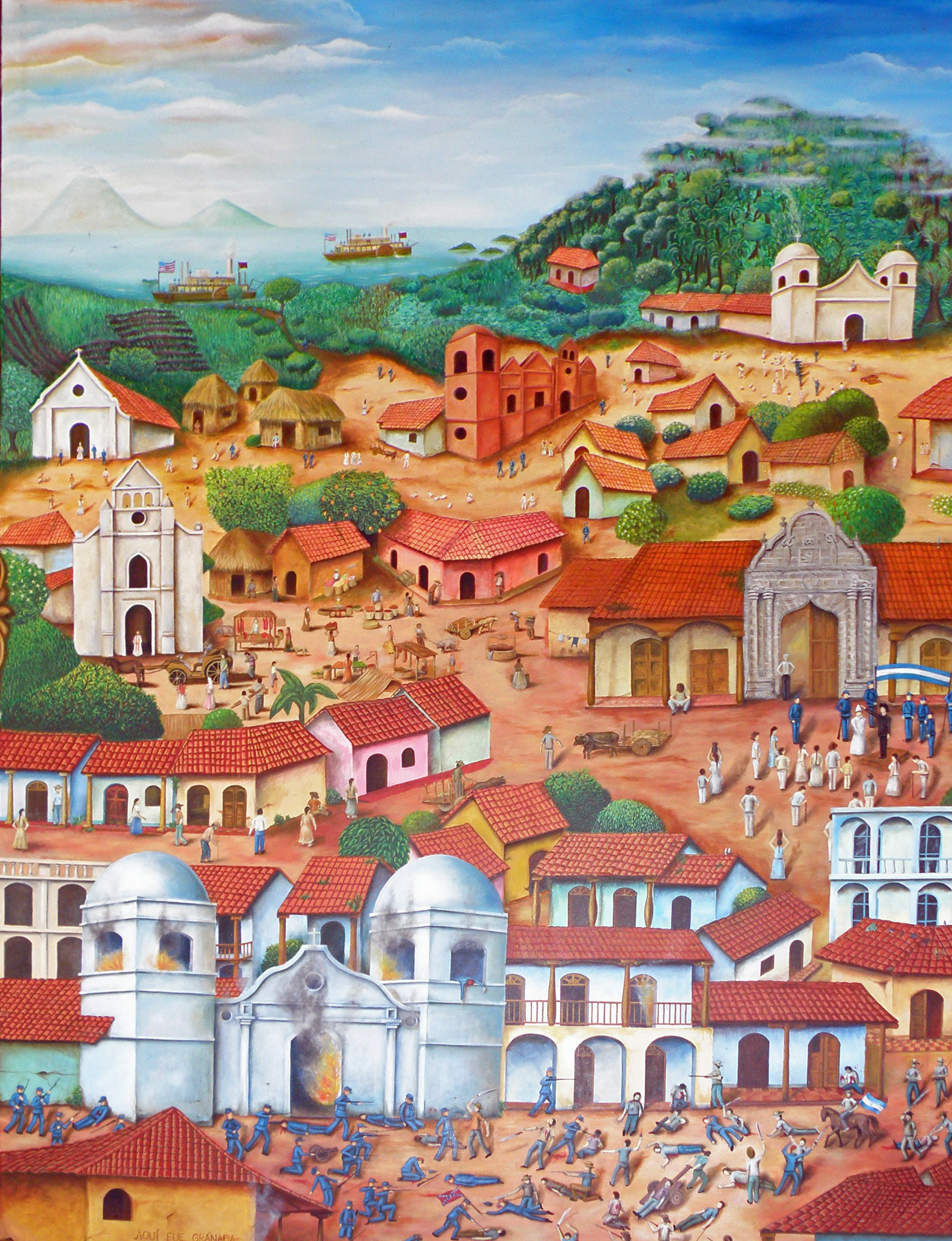 Scene from the War of Independence in Granada. The convent is pictured in the middle right.